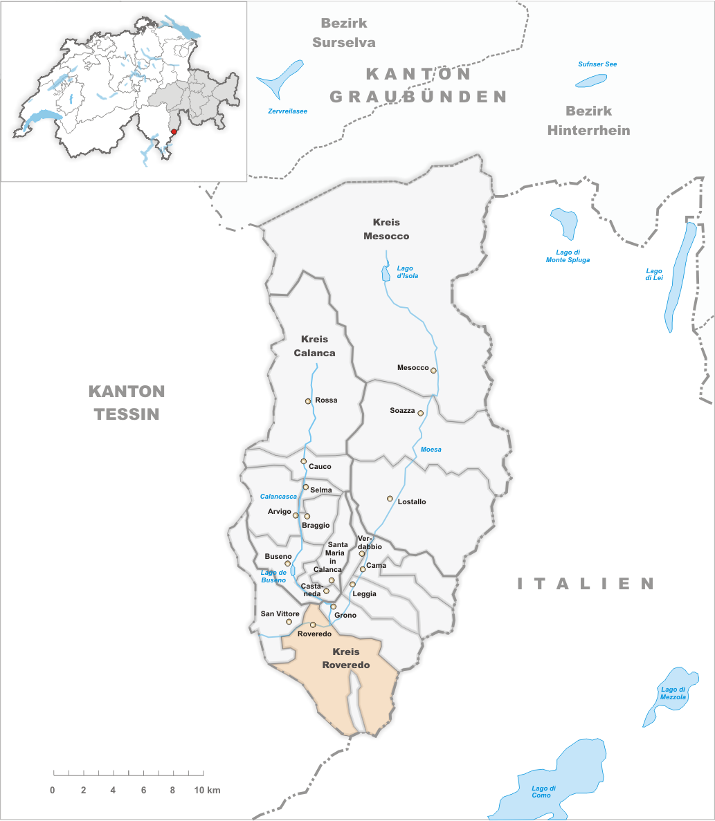 Municipality Roveredo